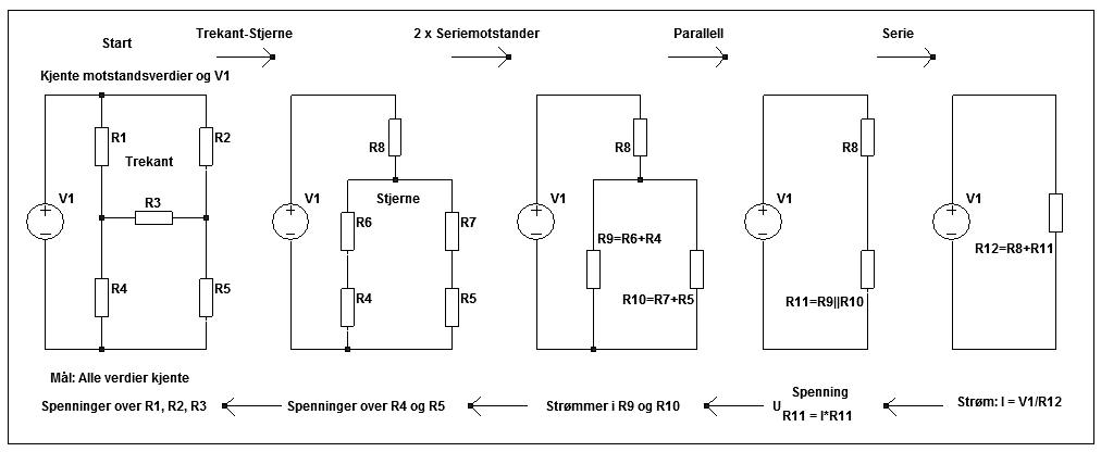 Computation plan for an unbalanced wheatstone bridge